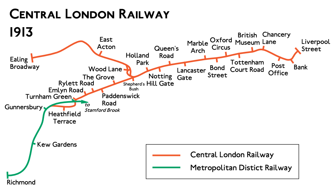 Geographic Map of the Central London Railway as planned in 1913.